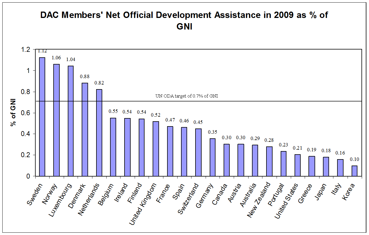 DAC Members' Net Official Development Assistance in 2009 as a percentage of GNI